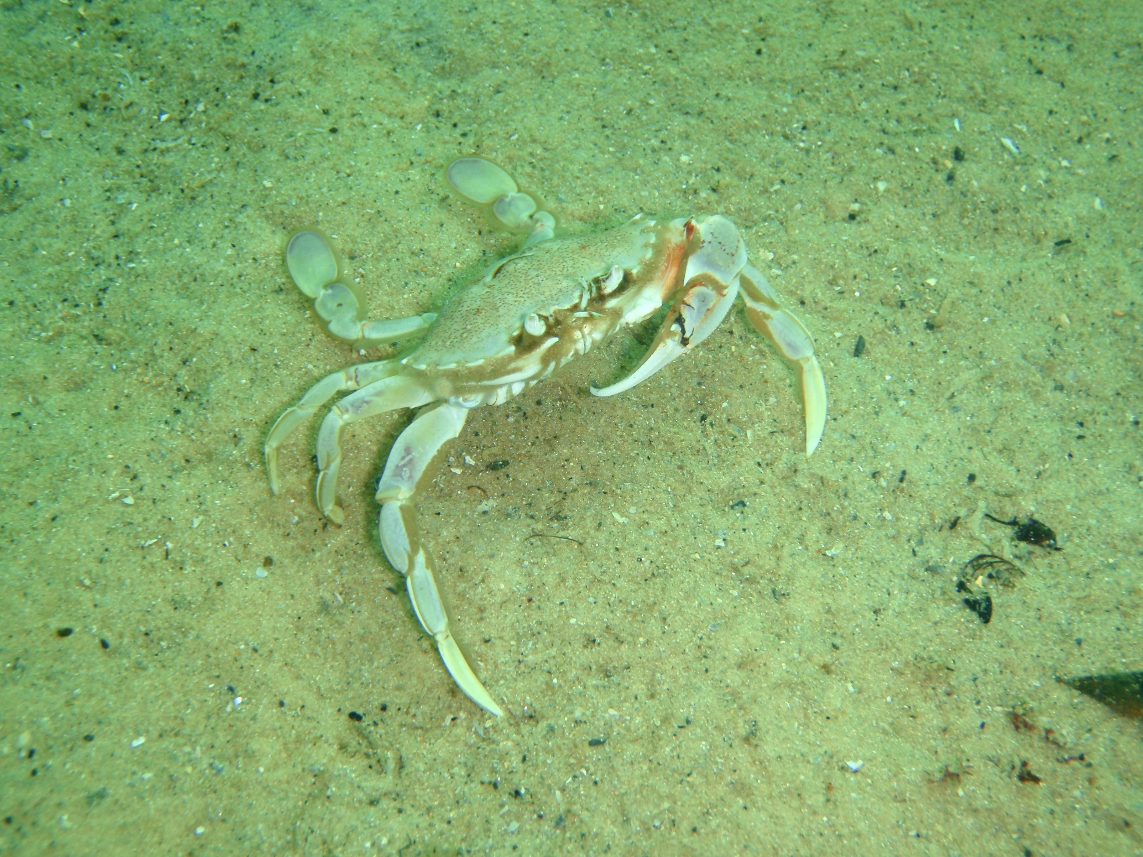 Three spot swimming crab at Long Beach, Simon's Town